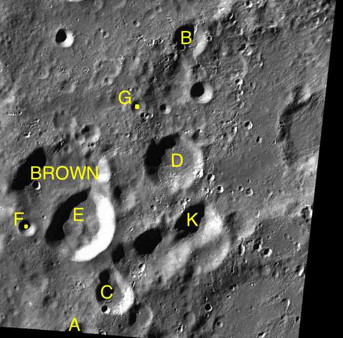 Part of the chart LAC-111 used for the presentation